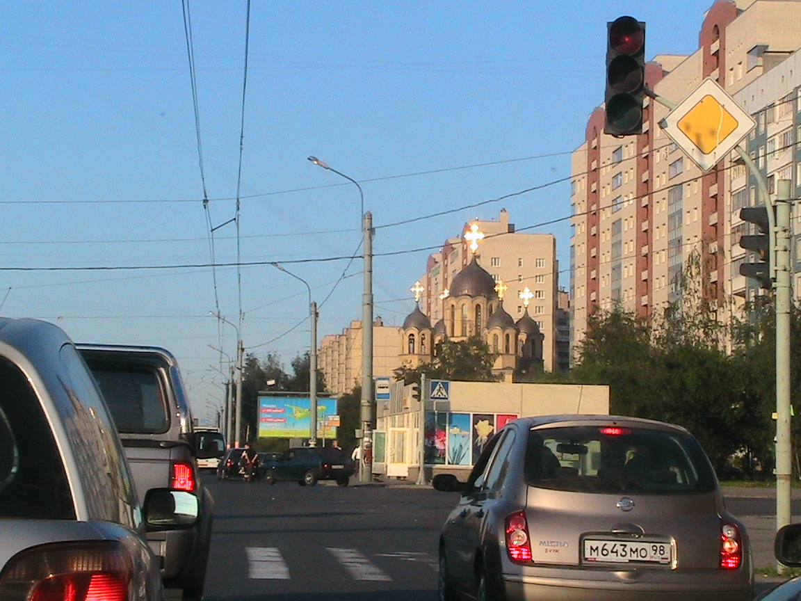 Church at Kollontay street in Saint Petersburg, Russia.